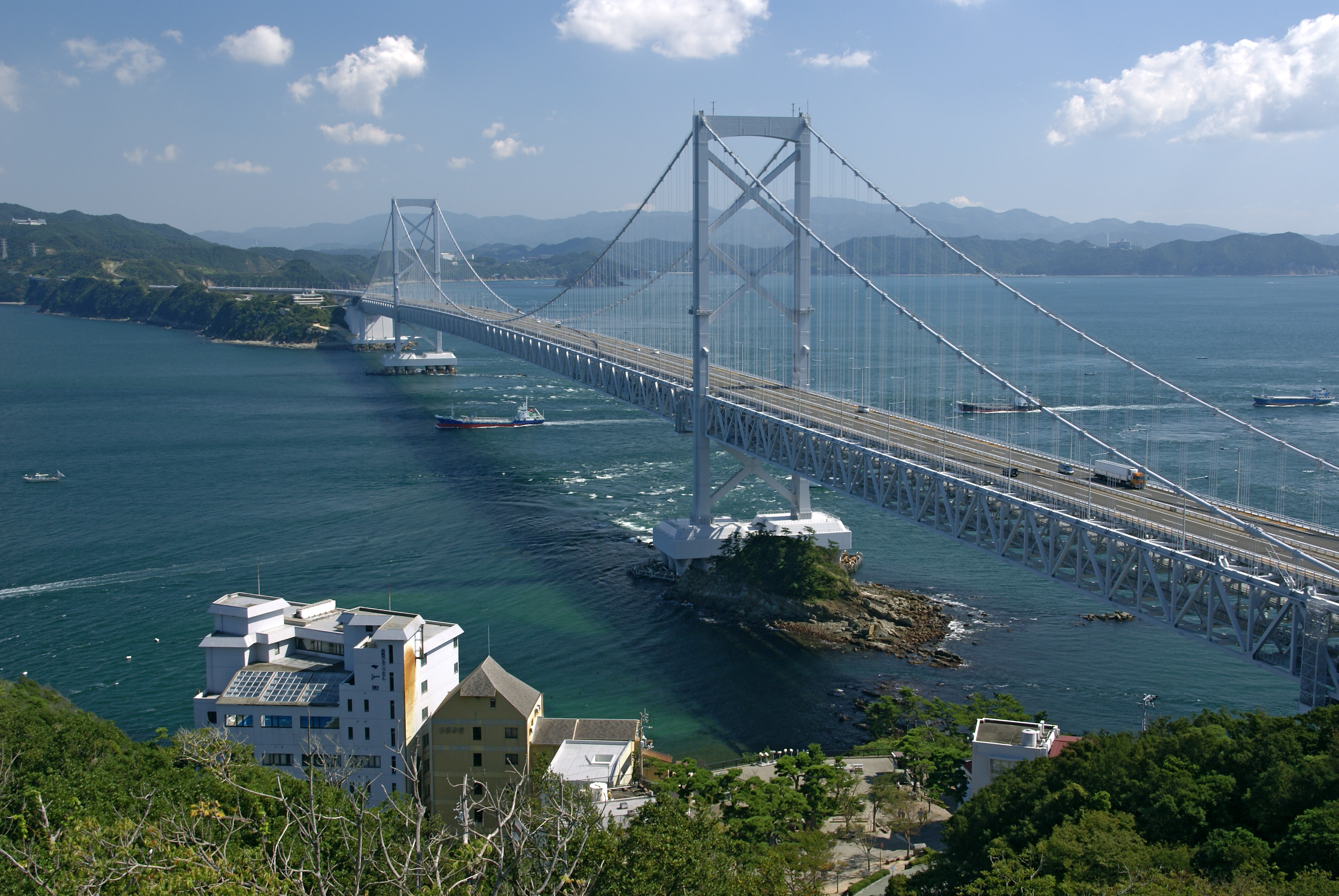 Big Naruto Bridge at Naruto, Tokushima prefecture, Japan